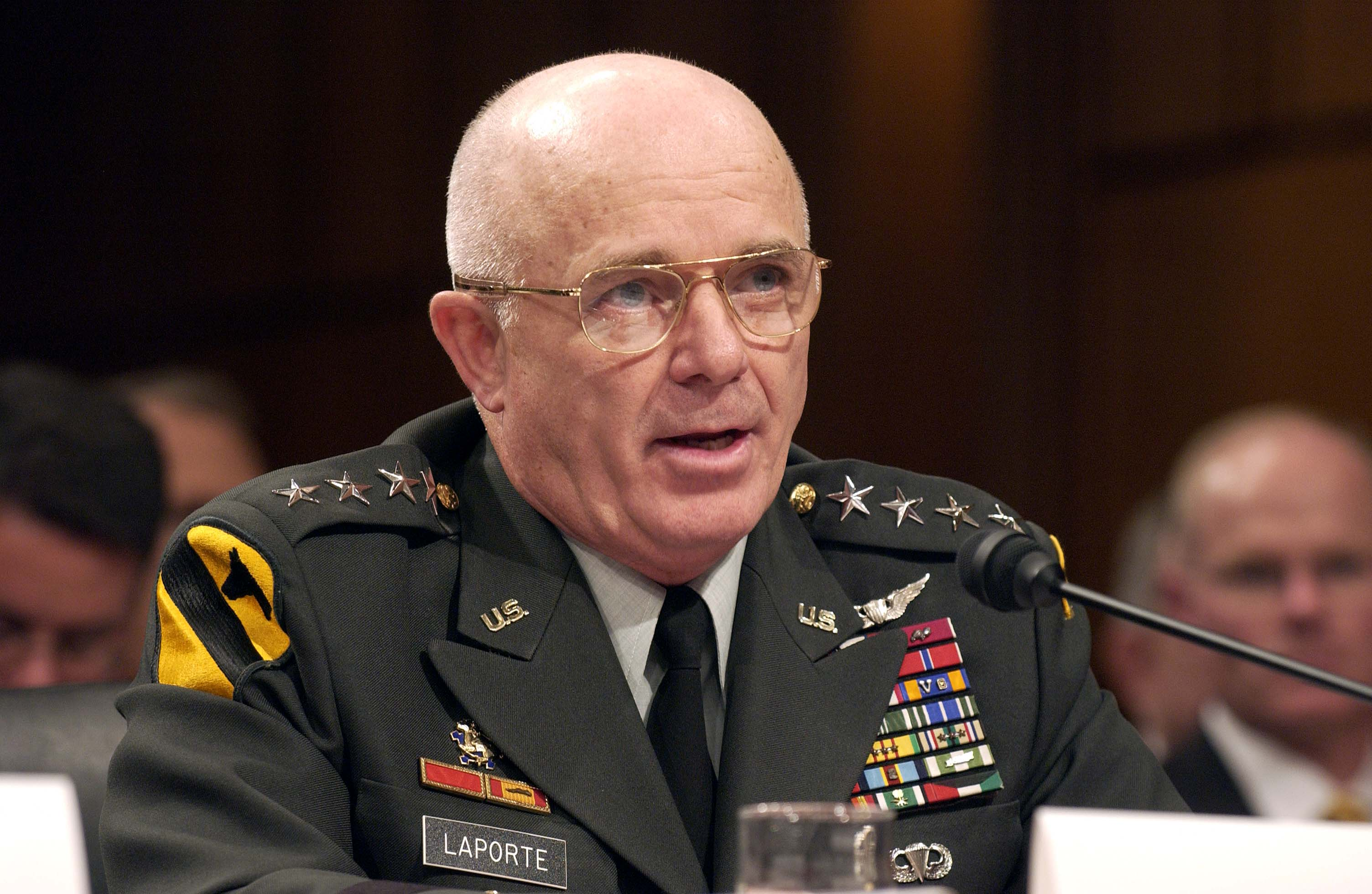 General Leon J. LaPorte from [1]